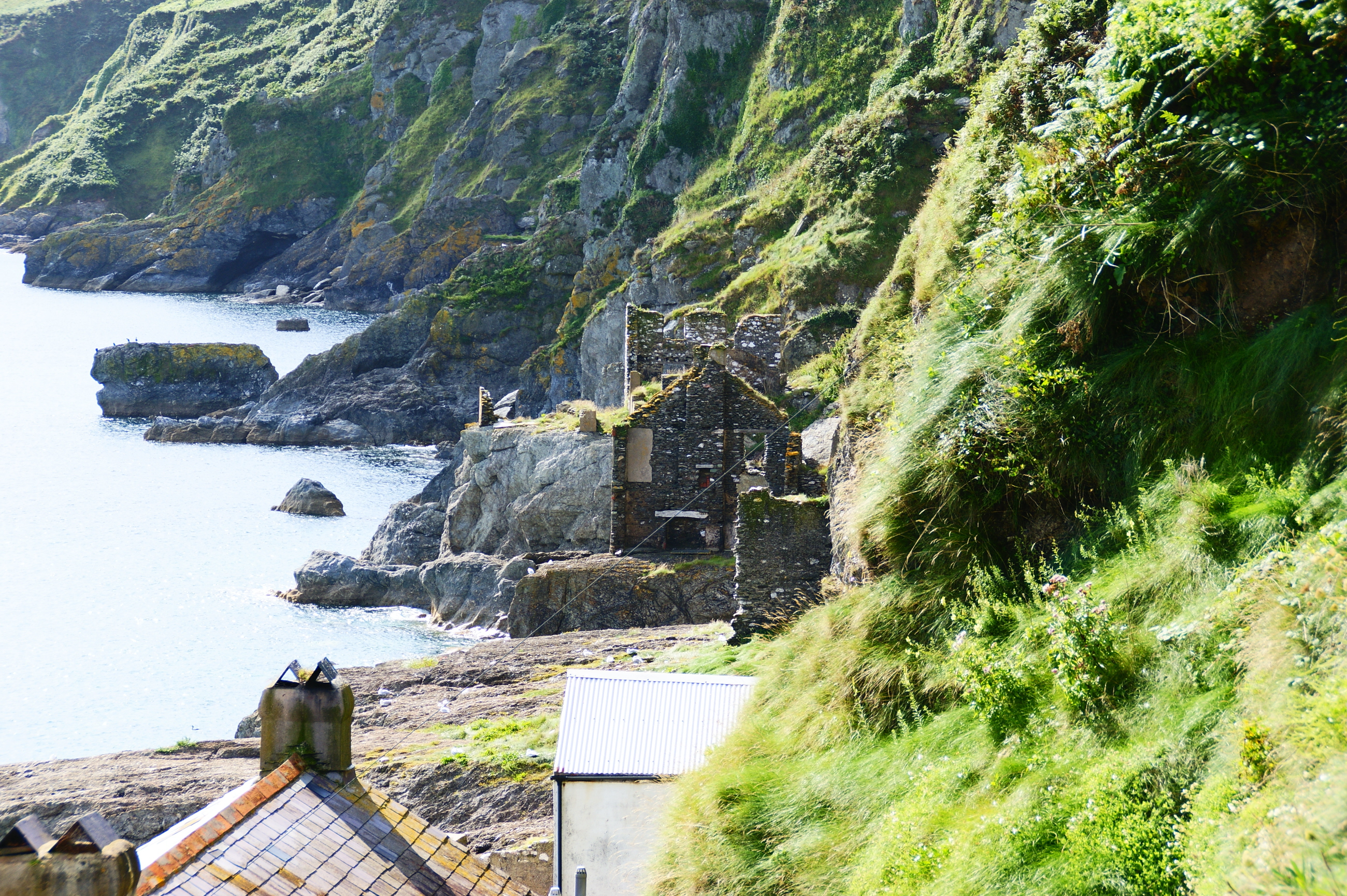 This shows some of the ruined buildings on the edge of the sea at Hallsands in Devon. The village has been partly destroyed by the sea. The buildings in the foreground (roofs of) are still occupied.